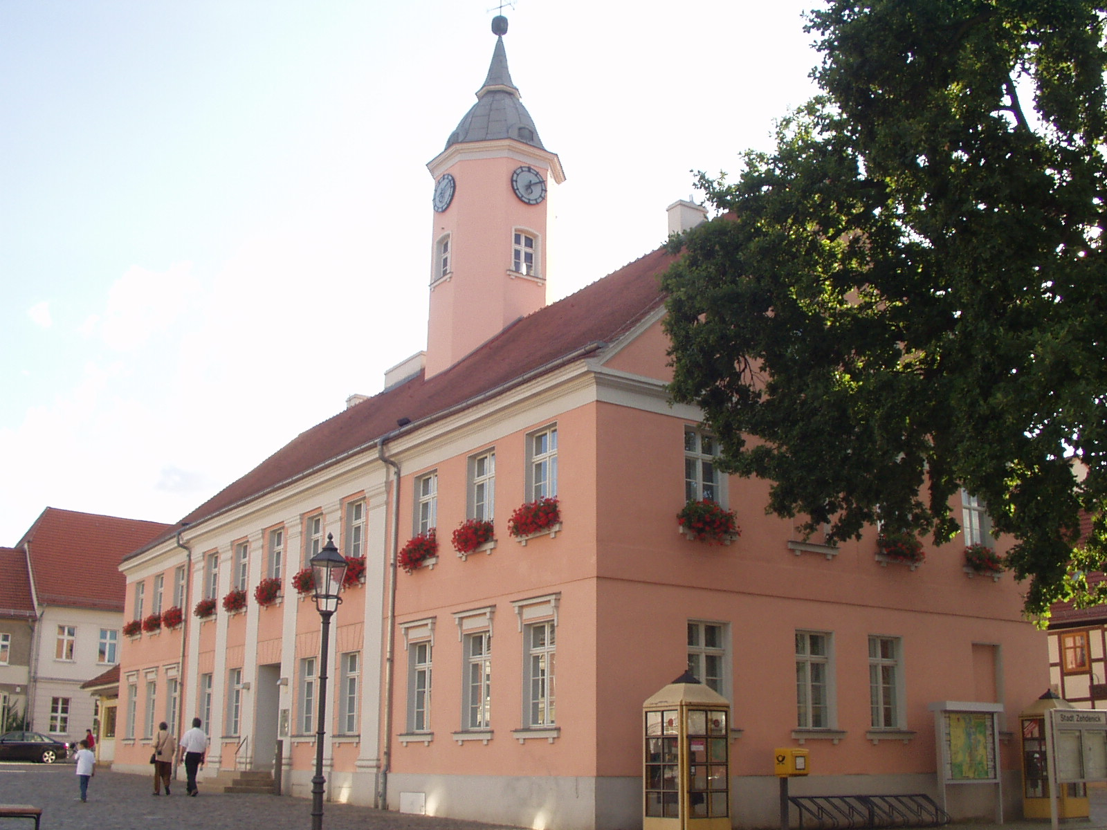 Zehdenick, Germany, Cityhall